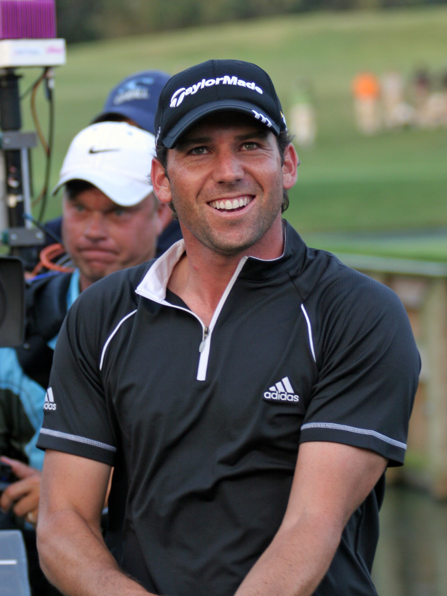 Sergio Garcia walking off the 17th green after winning the 2008 Players Championship.